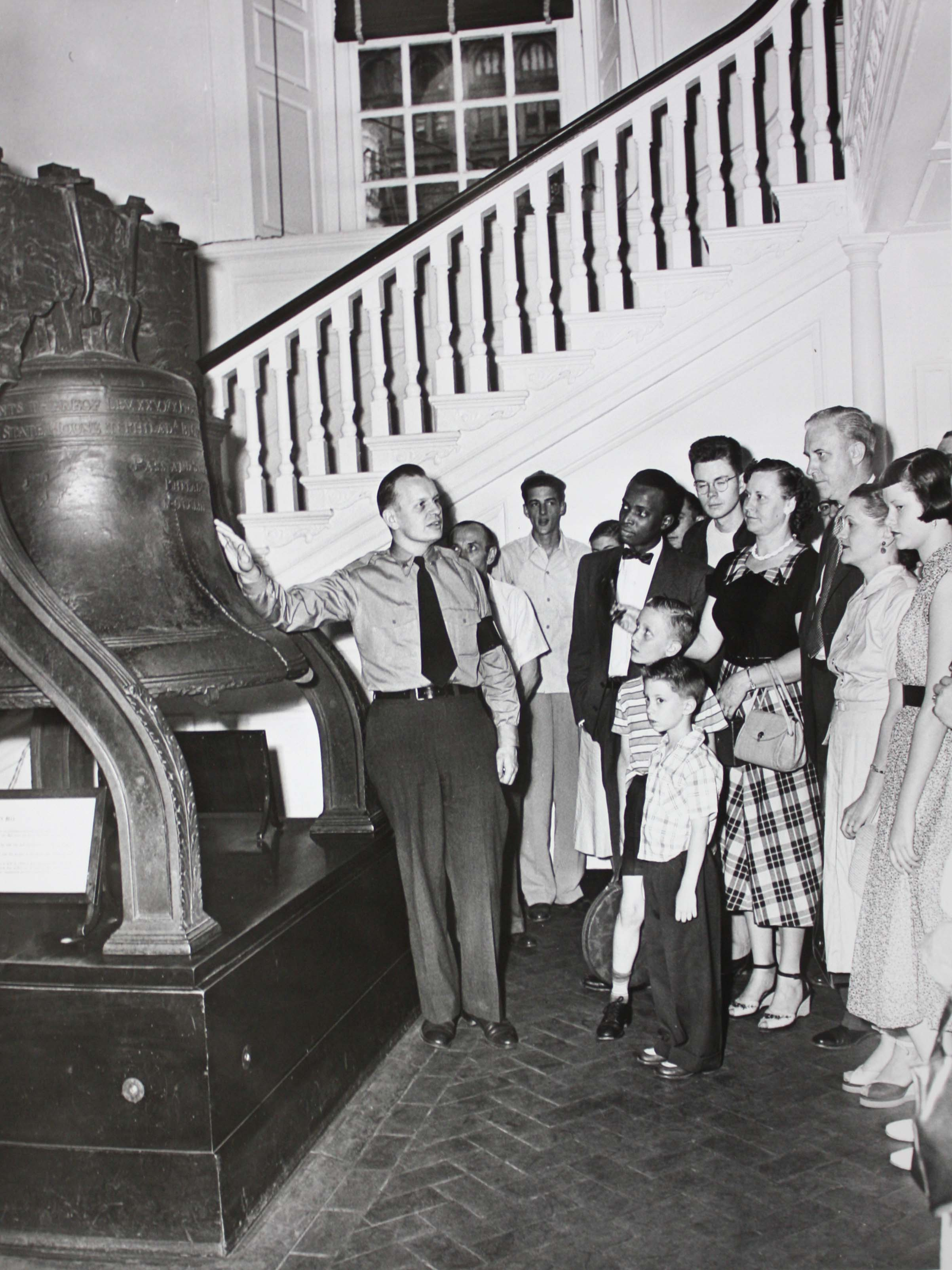 A National Park Service ranger gives a talk on the Liberty Bell, 1951